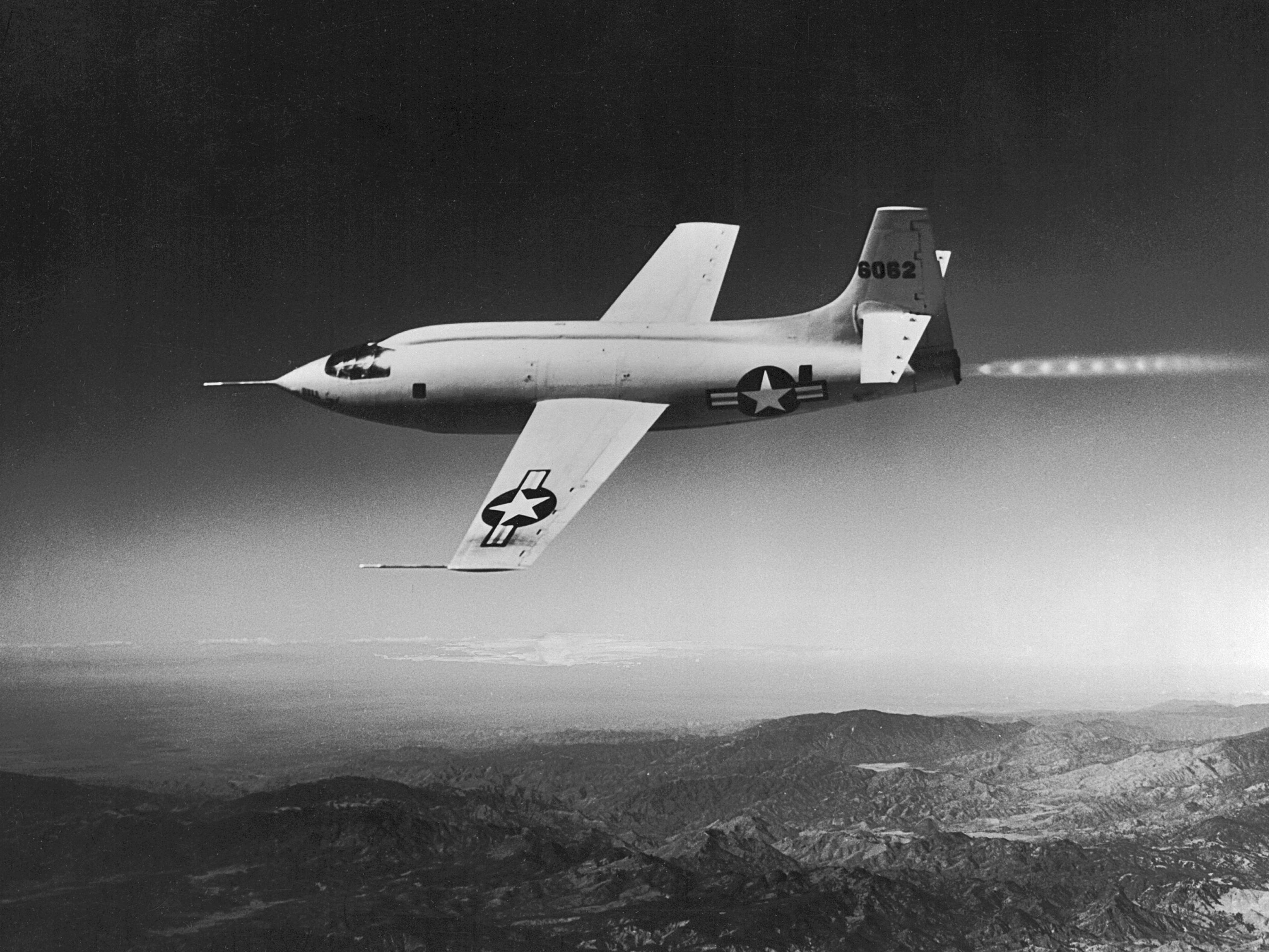 The #46-062 Bell X-1 rocket-powered experimental aircraft (known for becoming the first piloted aircraft to fly faster than Mach 1, or the speed of sound, on October 14, 1947) photographed during a test flight.